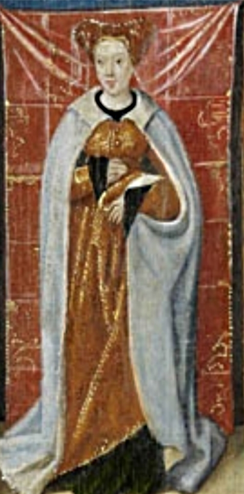 Ogive of Luxembourg, Countess of Flanders